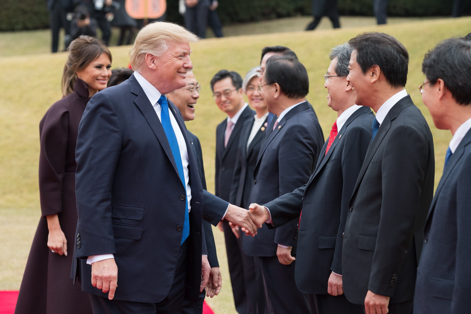 President Donald J. Trump and First Lady Melania Trump visit South Korea | November 7, 2017 (Official White House Photo by Andrea Hanks)